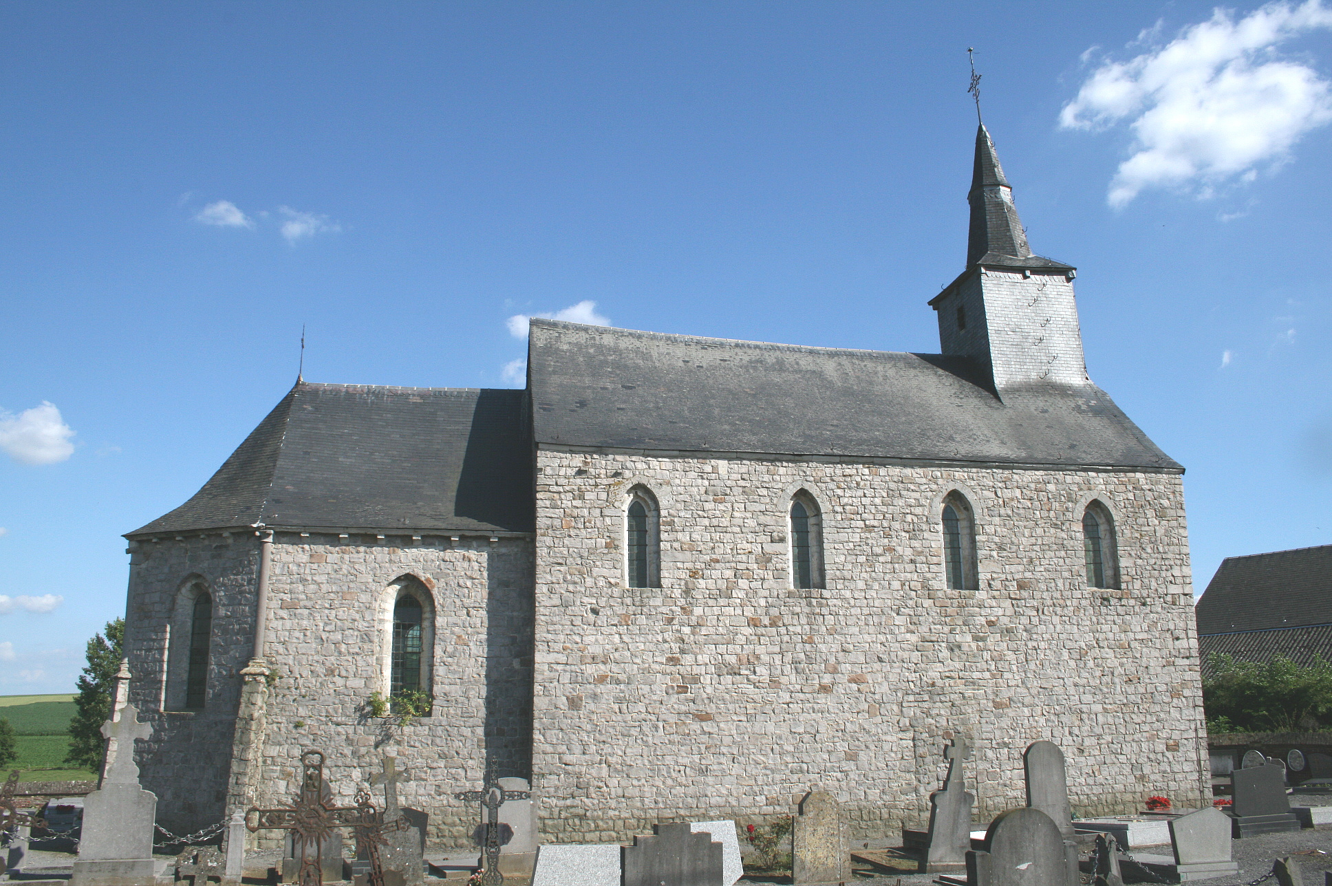 Herbais (Belgium), the St. Catherine chapel (XIIIth century).